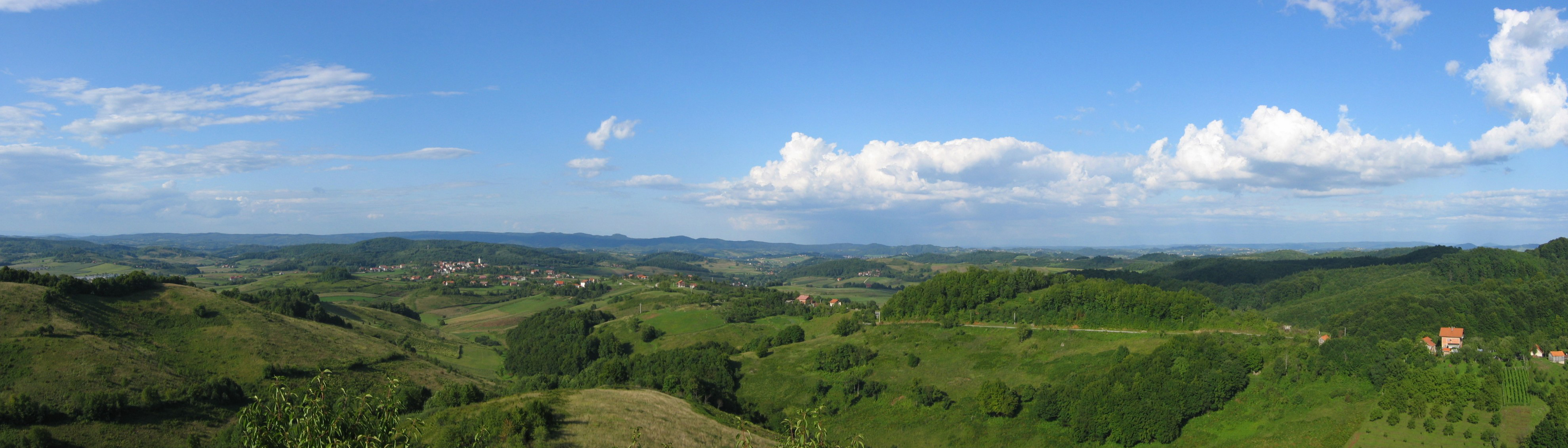 Cetin castle near Cetingrad, Croatia, view towards Bosnia, strategic position during Ottoman Wars